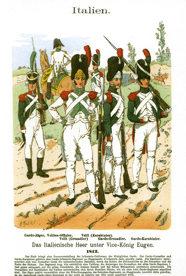 Italien. Das italienische Heer unter Vice-König Eugen. 1812